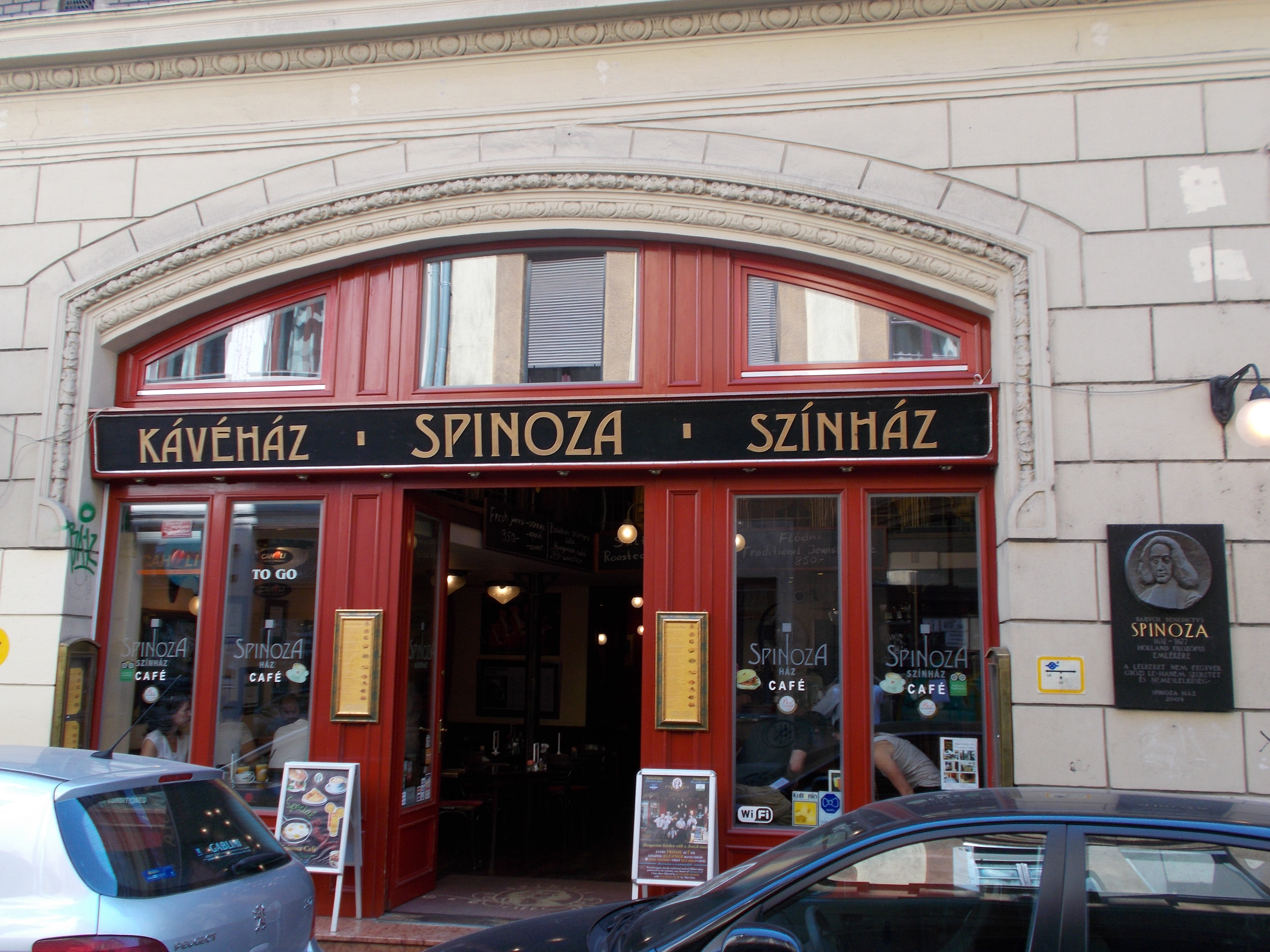 "Kávéház * Spinoza * Színház" ("Café * Spinoza * Theater"). Spinoza Restaurant, theater, cafe, cabaret, event, gallery. Dob utca 15, Budapest. With a plaque with Spinoza's head on the facade.